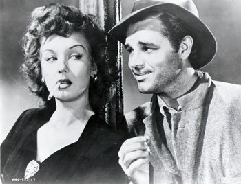 Ann Savage and Tom Neal in Detour